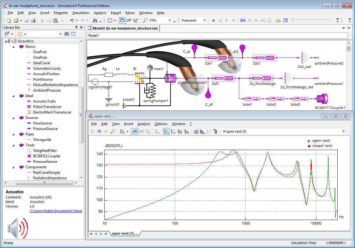 In-Ear Headphone